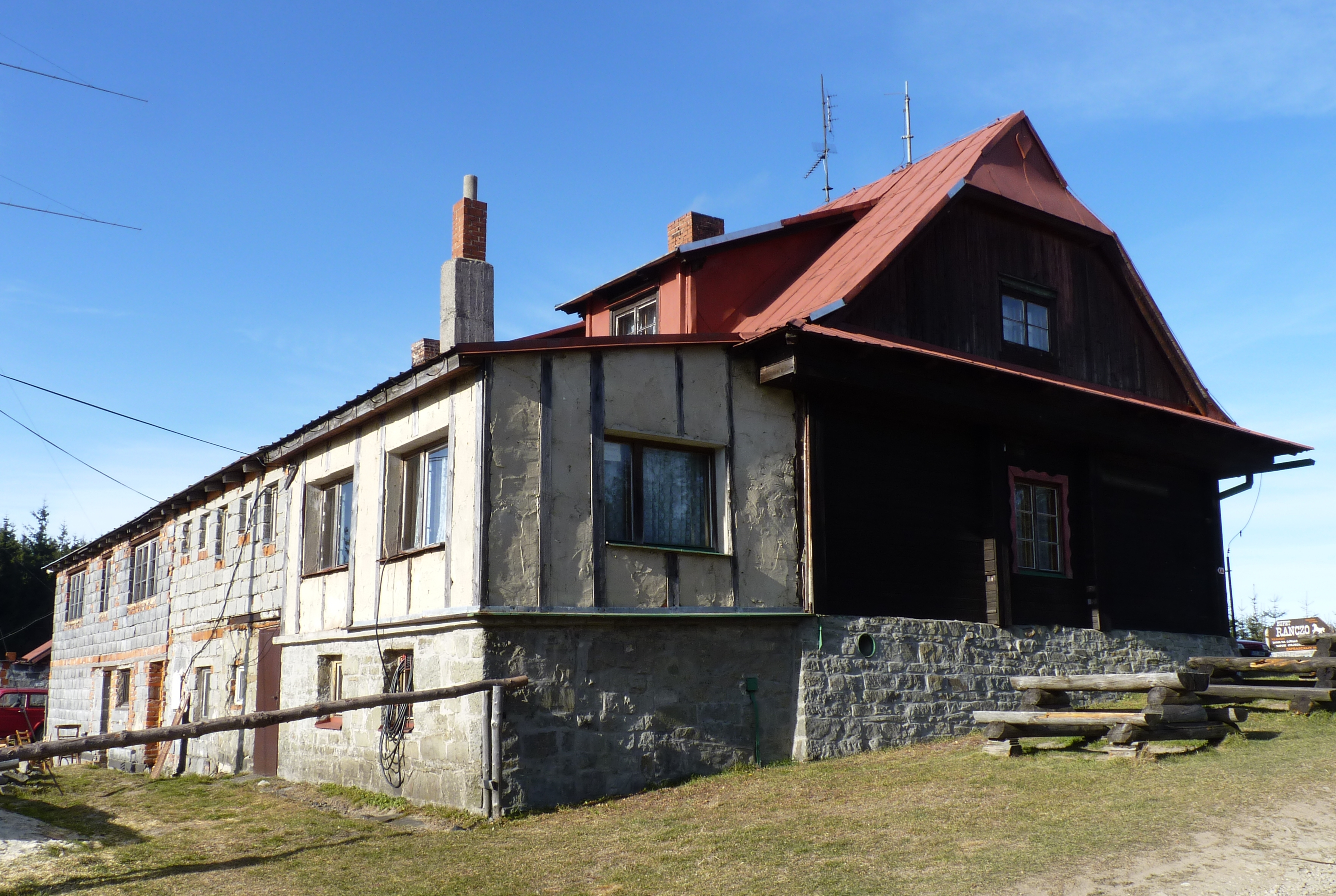 Czantoria cottage / mountain hut, Silesian Beskids